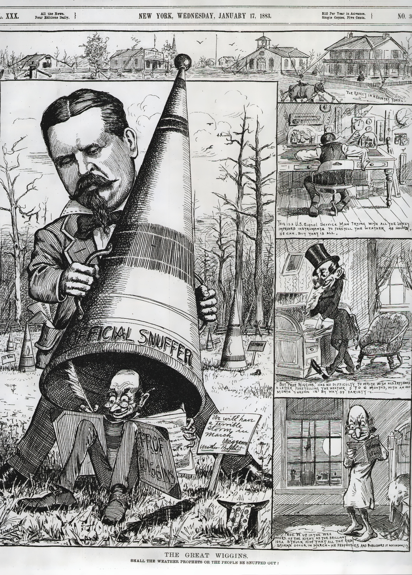 New York Daily Graphic Ezekiel Stone Wiggins January 17, 1883 cartoon by Grant E. Hamilton